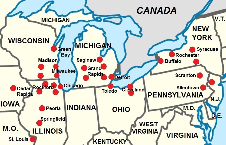 A map of the Inland North dialectal region according to Labov et al (2006) .